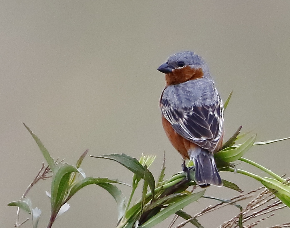 Red-rumped seedeater (male) at Iberá marshes - Corrientes - Argentina